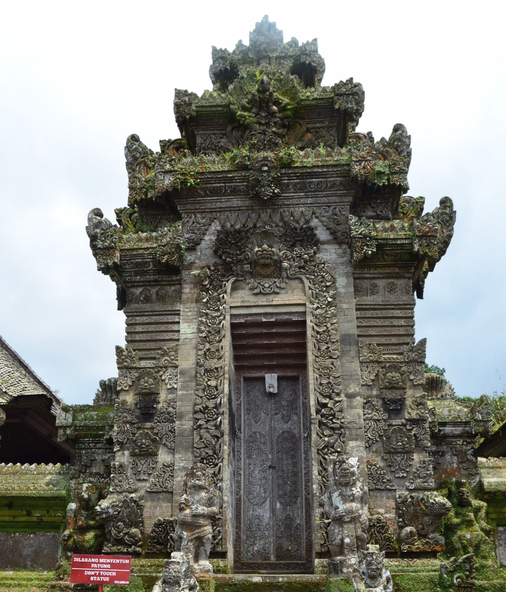 Penglipuran Village main temple entrance.